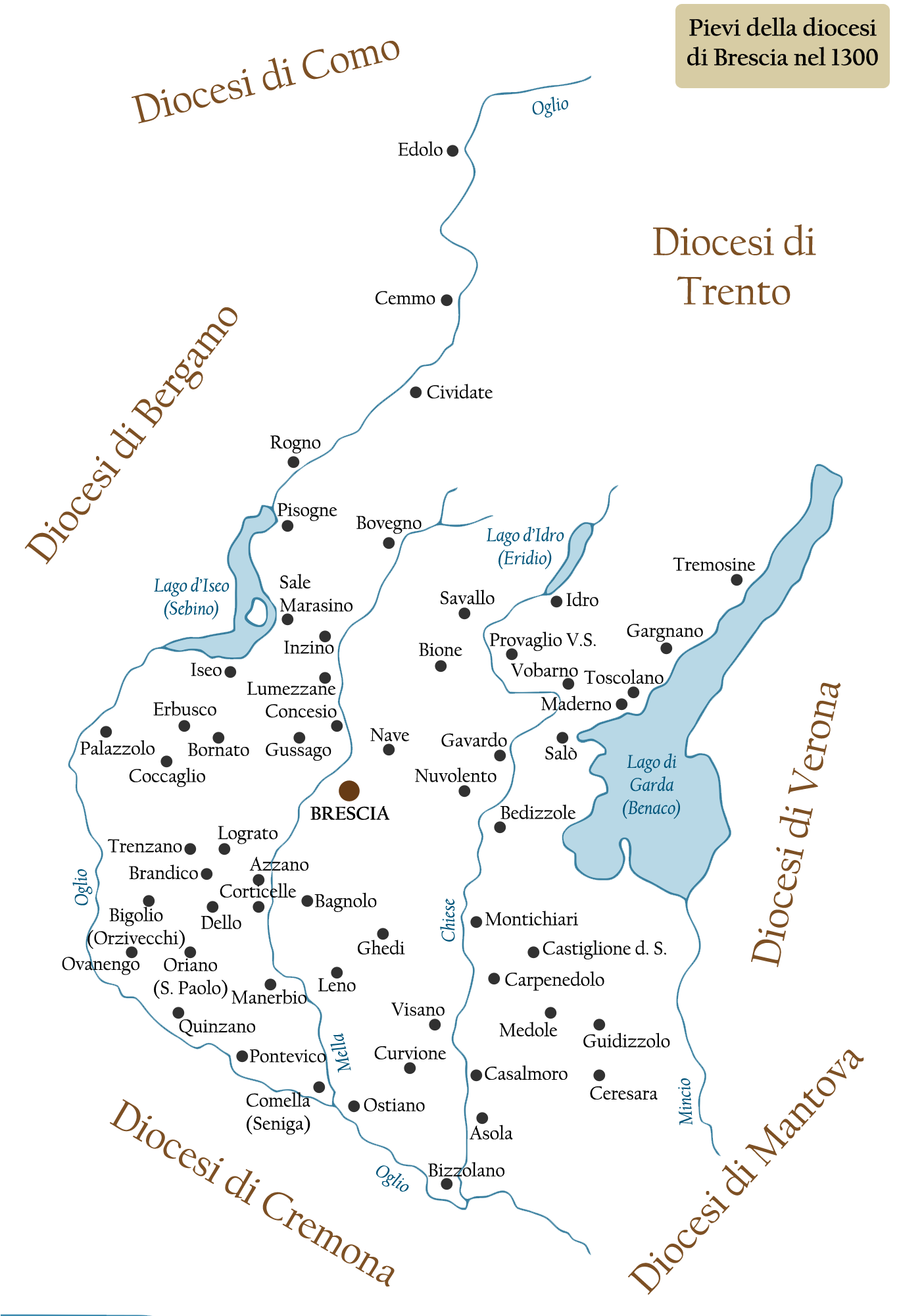 Pieves of the Brescia's dioceses (1300 ca). Elaboration from: AAVV, Le pievi del Bresciano, 2000, p. 12.